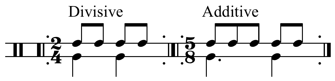 Created by Hyacinth (talk) 20:40, 28 April 2010 using Sibelius 5.